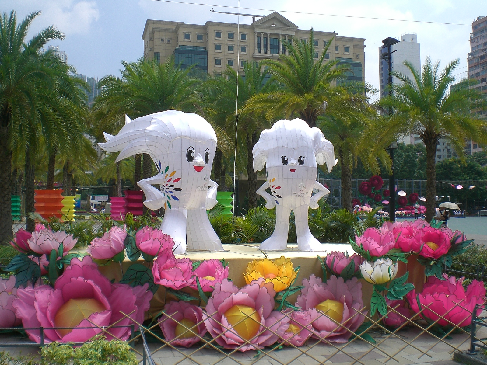 Statues of the mascots of the 2009 East Asian Games, Victoria Park, Hong Kong. Mascots are named Dony and Ami.